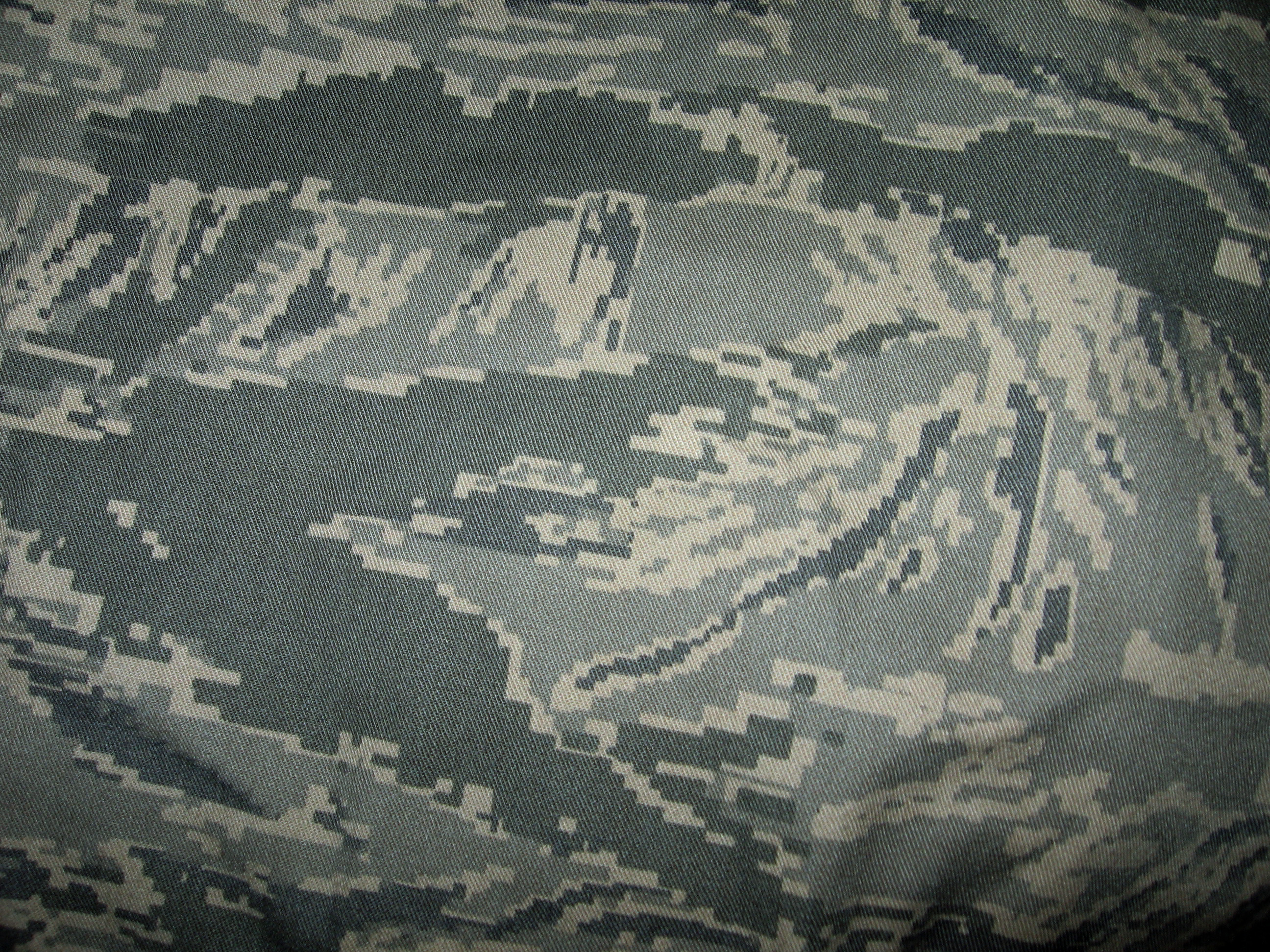 Airman Battle Uniform digital tigerstripe pattern.